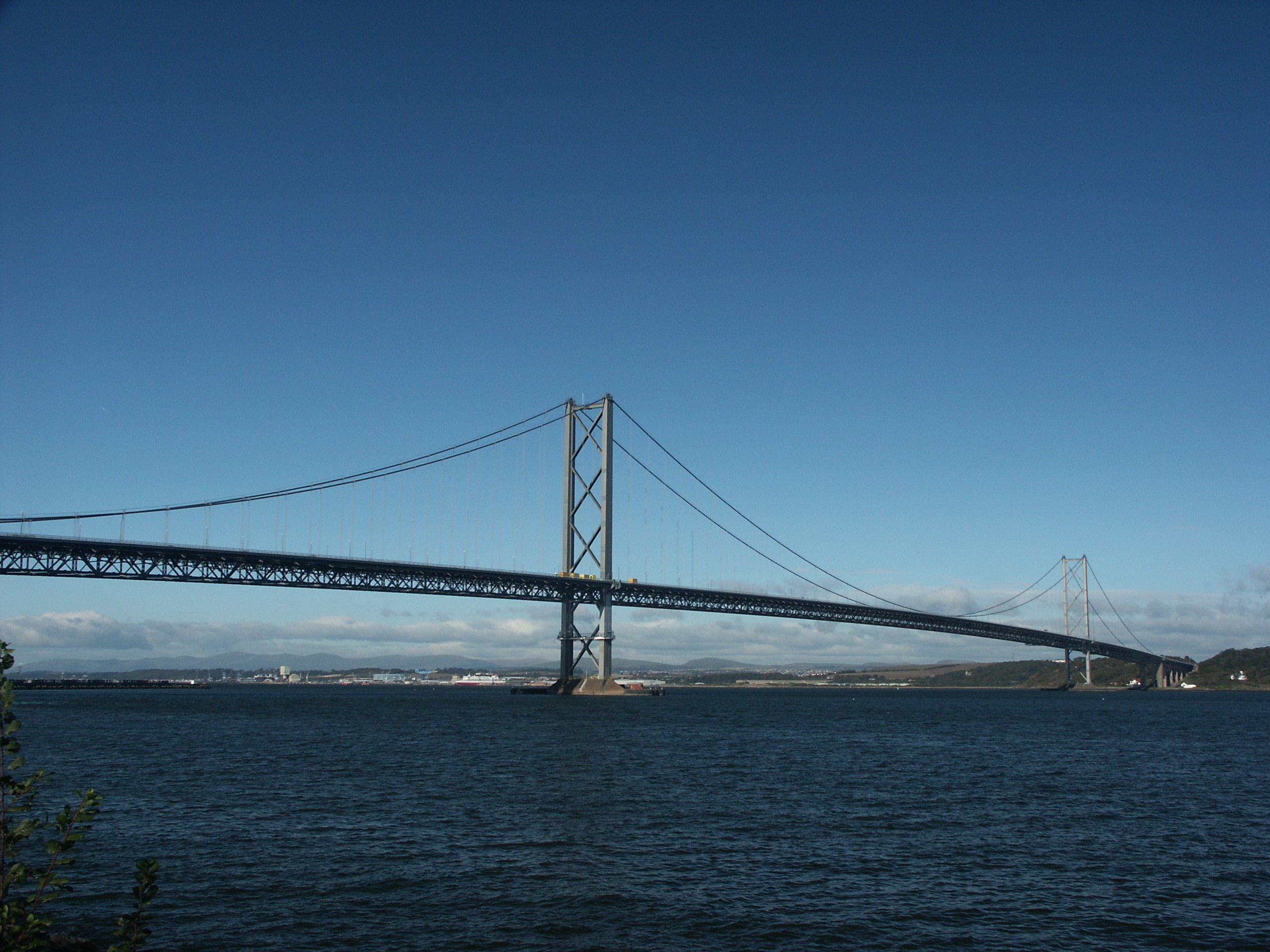 The Forth Road Bridge (before all the trouble...)